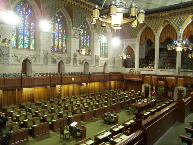 The interior of the House of Commons of Canada, in the Centre Block on Parliament Hill, in the capital of Ottawa.